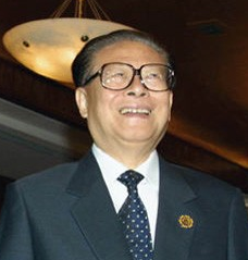 A cropped version of File:Vladimir Putin at APEC Summit in China 19-21 October 2001-11.jpg of Jiang Zemin